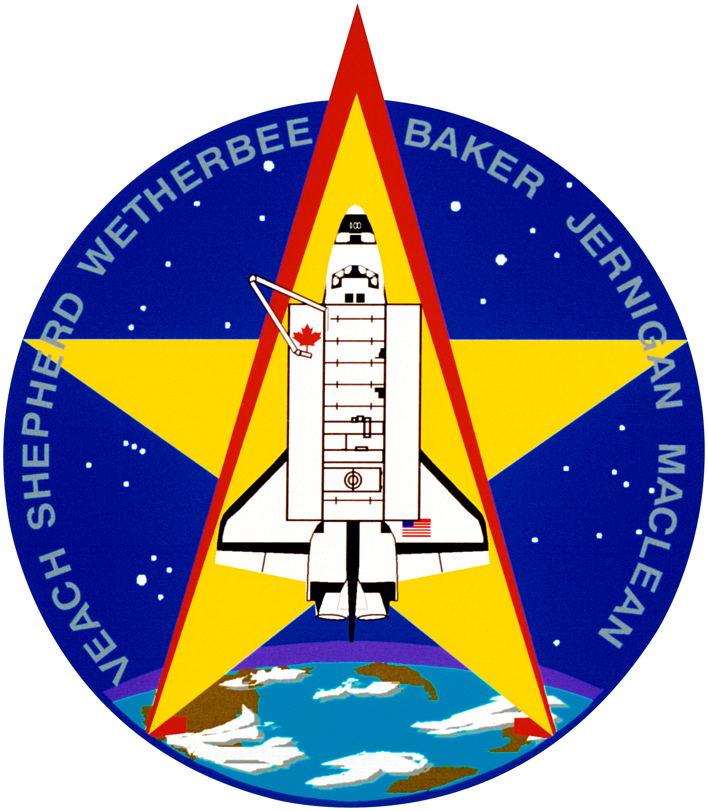 STS-52 Columbia, Orbiter Vehicle (OV) 102, crew insignia (logo), the Official insignia of the NASA STS-52 mission, features a large gold star to symbolize the crew's mission on the frontiers of space. A gold star is often used to symbolize the frontier period of the American West. The red star in the shape of the Greek letter lambda represents both the laser measurements to be taken from the Laser Geodynamic Satellite (LAGEOS II) and the Lambda Point Experiment, which is part of the United States Microgravity Payload (USMP-1). The LAGEOS II is a joint Italian \ United States (U.S.) satellite project intended to further our understanding of global plate tectonics. The USMP-1 is a microgravity facility which has French and U.S. experiments designed to test the theory of cooperative phase transitions and to study the solid\liquid interface of a metallic alloy in the low gravity environment. The remote manipulator system (RMS) arm and maple leaf are emblematic of the Canadian payload specialist Steven MacLean.